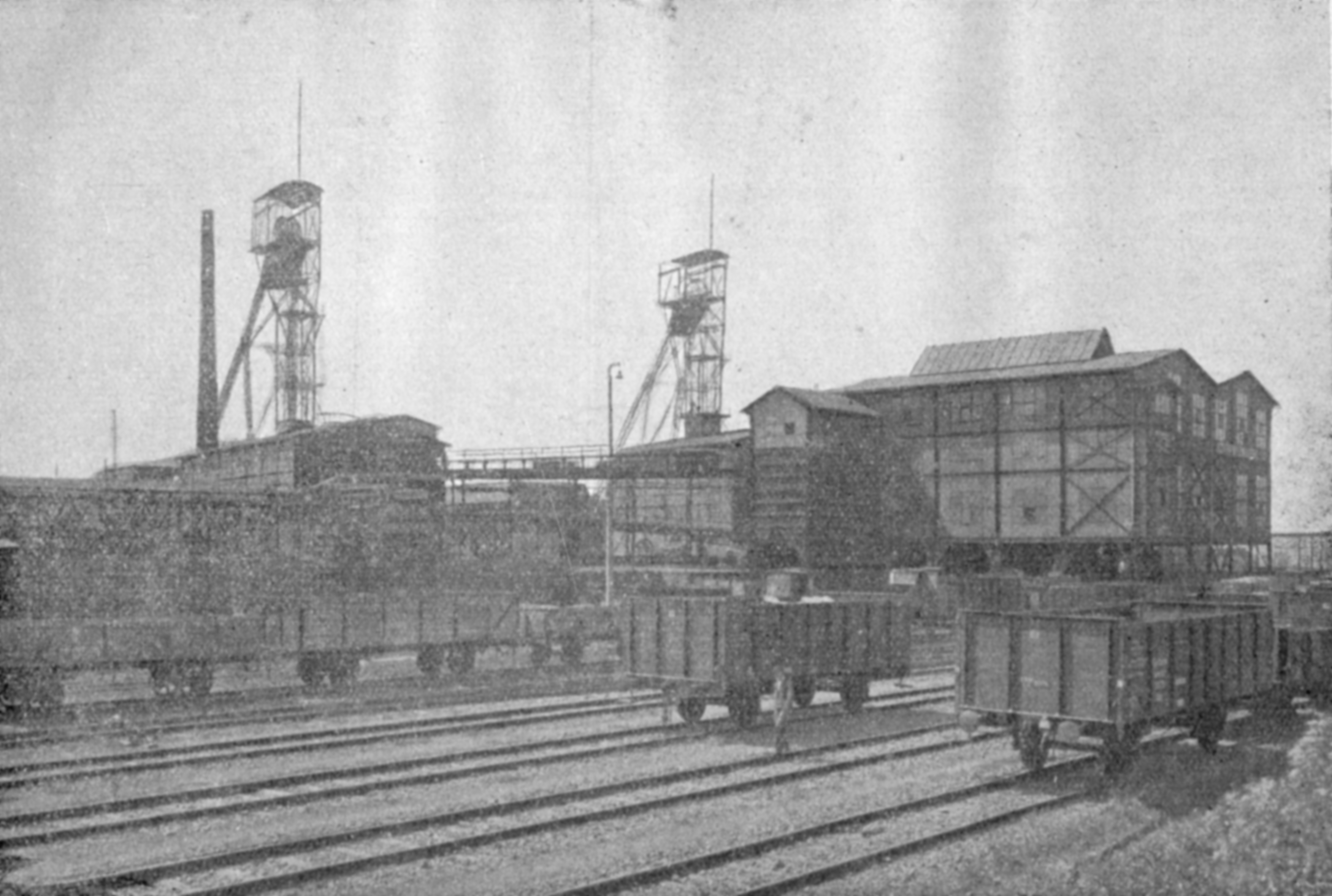 Król coal mine in Chorzów, Wyzwolenie headhrames in the north field (Polish: pole północne)